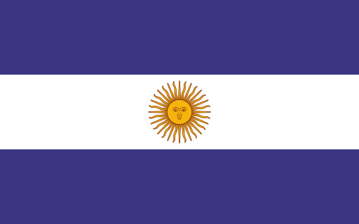 Flag of the Argentine Confederation, represented by Buenos Aires Province.